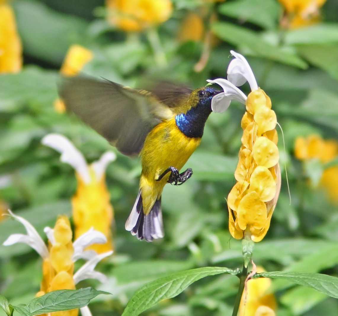 Cinnyris jugularis - male Olive-backed Sunbird hovering while feeding